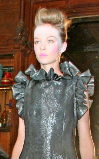 Siri Tollerød modeling in Ruffian spring 2008 show, New York Fashion Week.